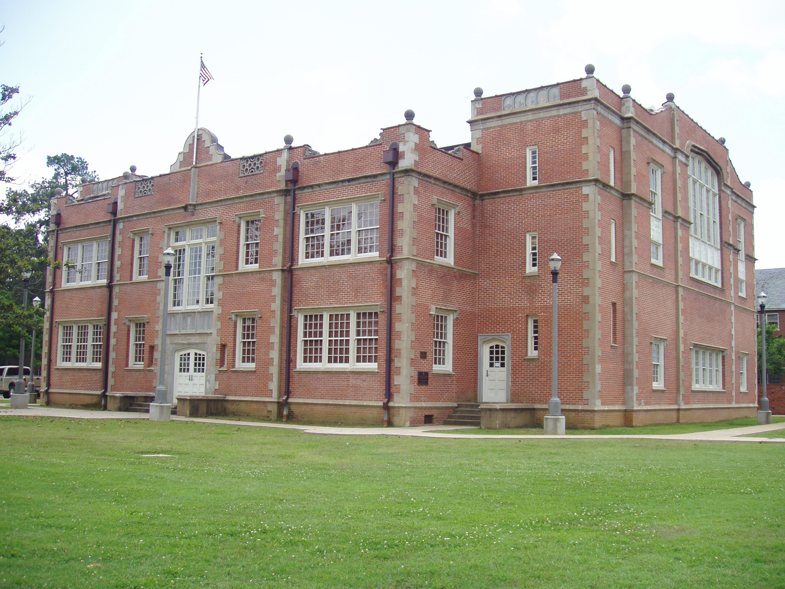 Image of the front (from the Northwest looking Southeast) of Lee H. Nelson Hall on Northwestern State University (Louisiana) campus in Natchitoches, Louisiana, USA. Lee H. Nelson Hall is a Jacobean Revival style building which houses the offices of the U.S. National Park Service National Center for Preservation Technology and Training.